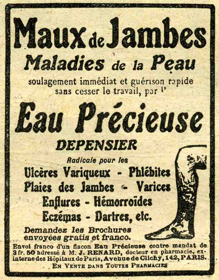 Advertisement for "Eau Précieuse" in French periodical Le Pèlerin